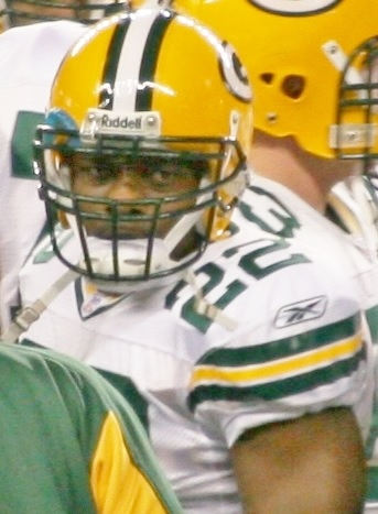 Green Bay Packers players huddle before a Monday Night Football game in Qwest Field of Seattle in 2006.